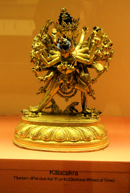 Tibetian Statue of Kala Chakra, The Glorious Wheel of Time in Museum of Natural History, New York